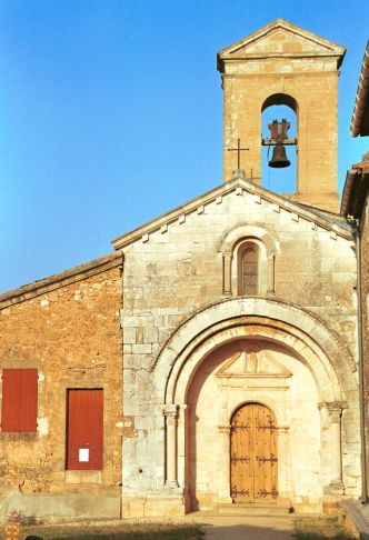 Notre-Dame de Gattigues church, Front view